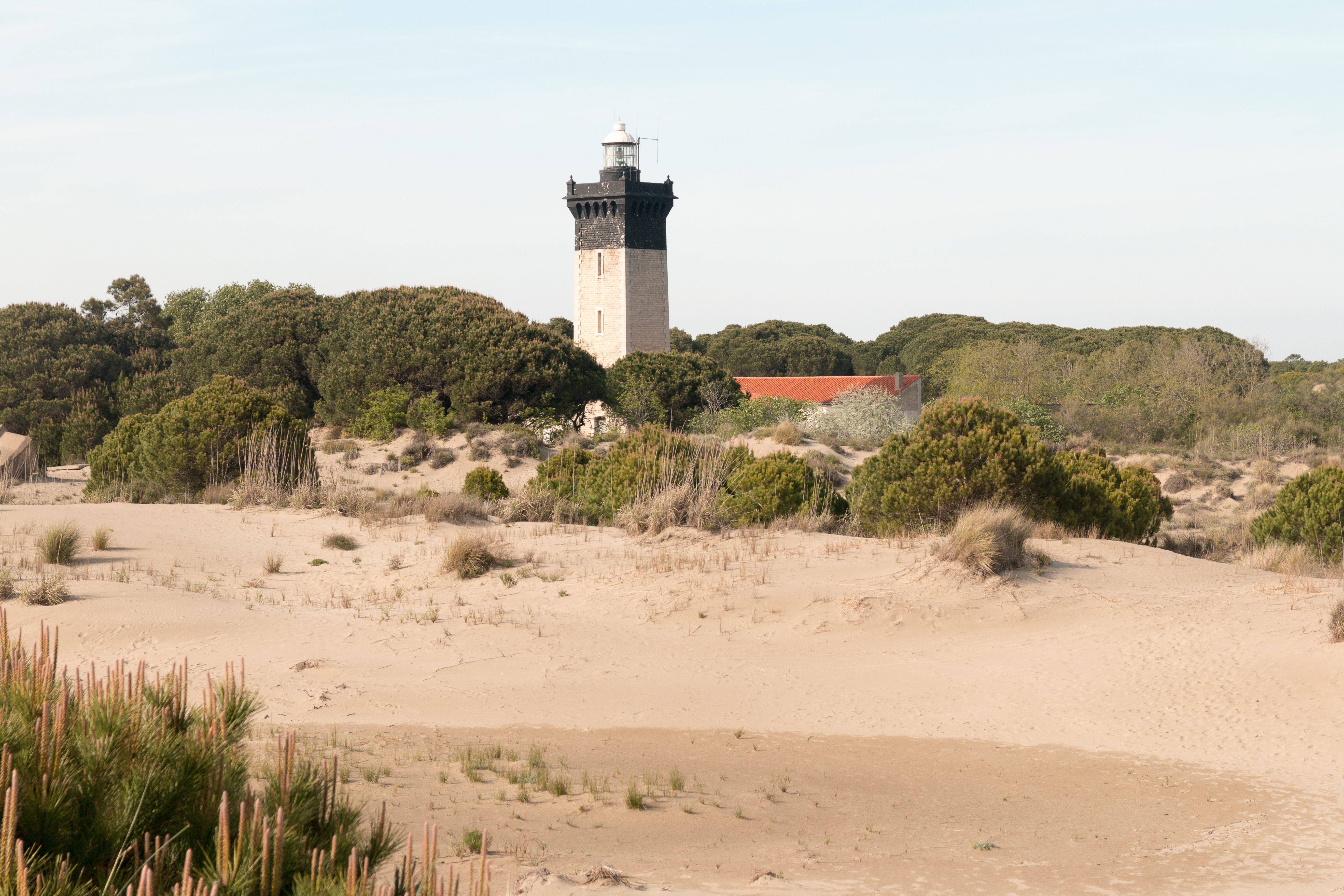 In spring, there are still in the dunes wetlands traces the path of underground water from "enganes" and ponds that are found around the lighthouse..